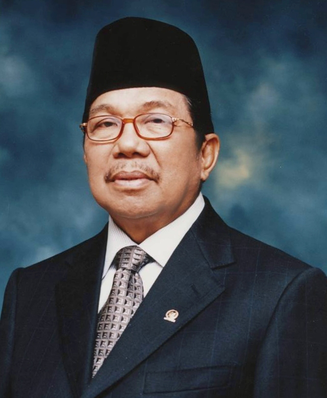 Aksa Mahmud, the founder of Semen Bosowa and member of Indonesian Regional Representative Council.